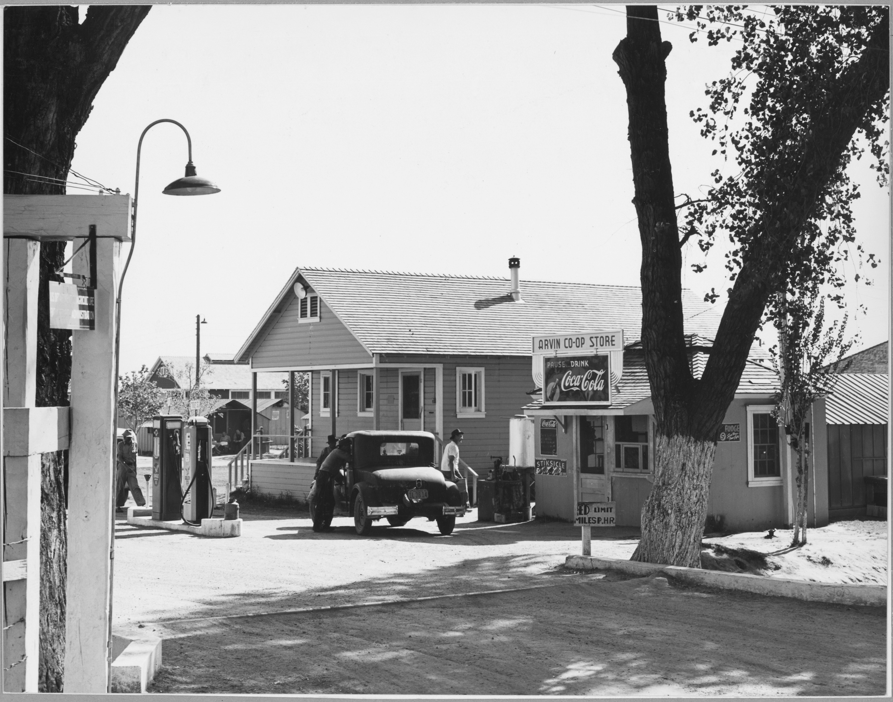 Scope and content: Full caption reads as follows: Arvin Kern County, California. Photograph made from the entrance of the Arvin Farm Labor Camp (F.S.A.). Shows the Arvin co-op store and gas station, this co-operative established December 15, 1939, by 60 camp members each of whom contributed $1 to start the enterprise. The gas pumps are now one third paid for and the store paid a 14 percent dividend in March 1940. Two other camps (F.S.A.) have started similar co-operative endeavors.